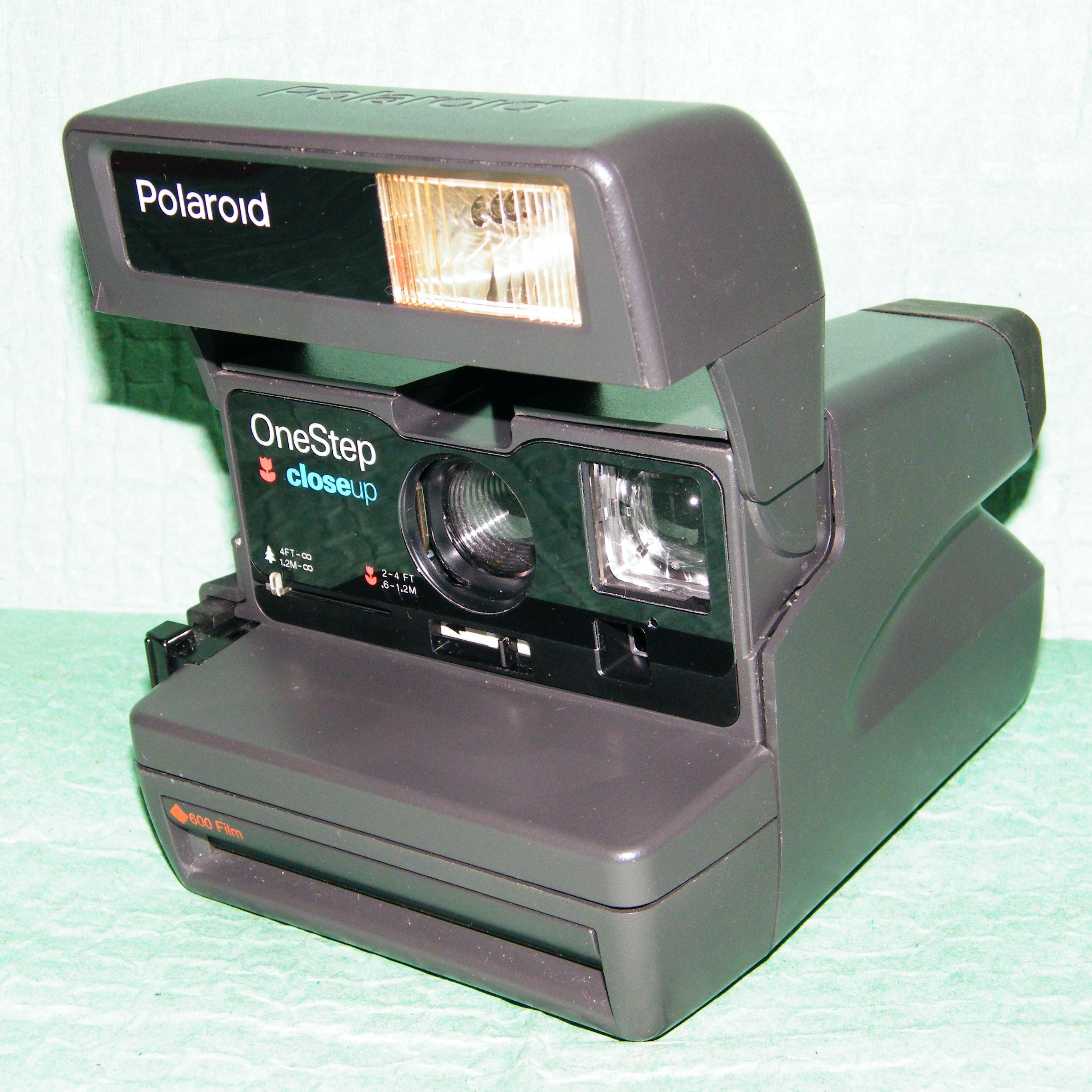 Polaroid 600 Closeup from Russia